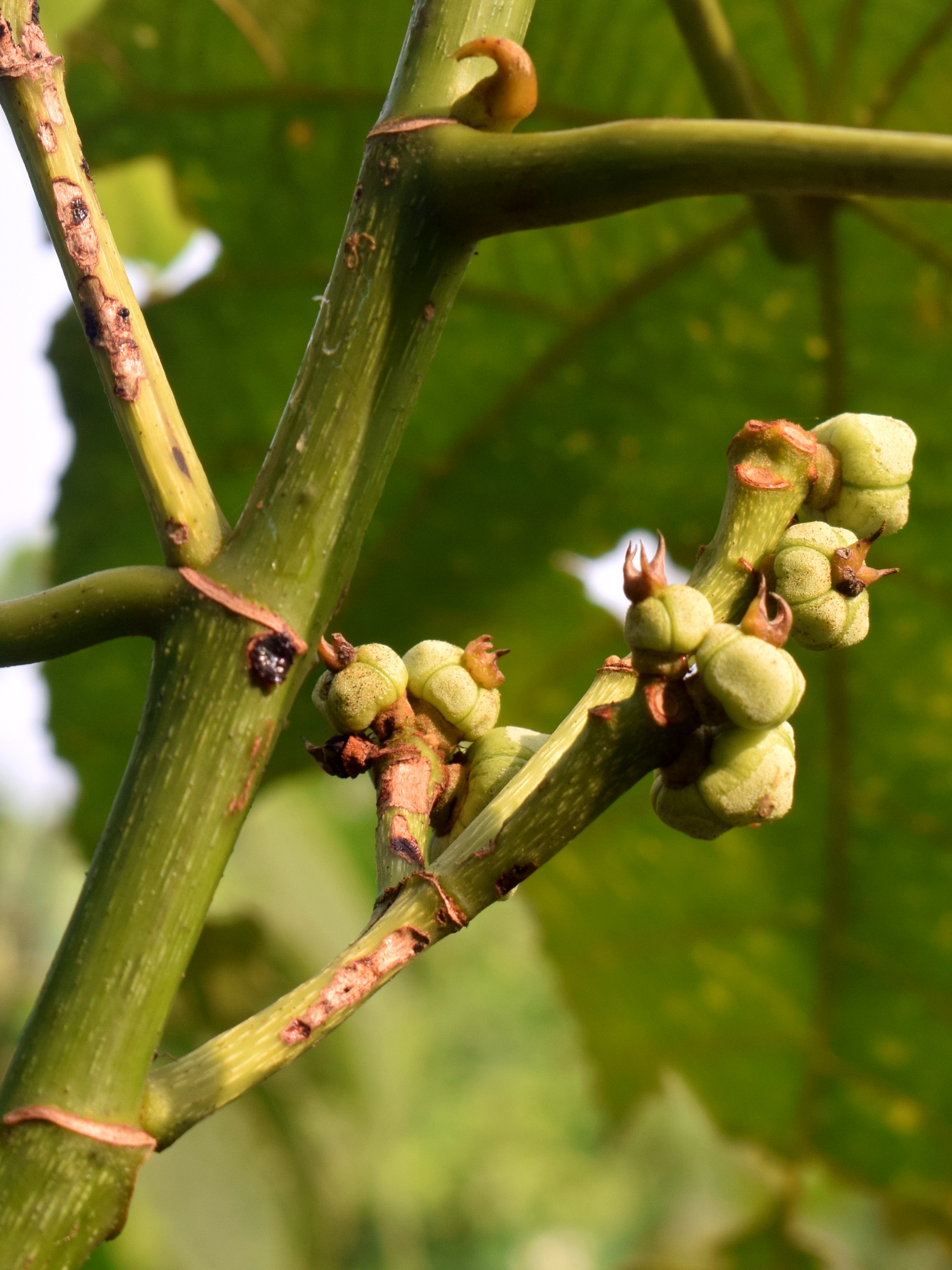 Macaranga triloba; young infructescence. From Bogor, West Java, Indonesia.